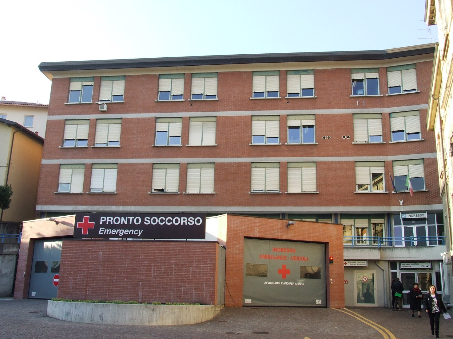 ps di lovere